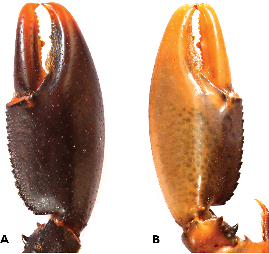 Cherax snowden holotype male (MZB Cru 4291) A left first chela, ventral aspect B right first chela, dorsal aspect.